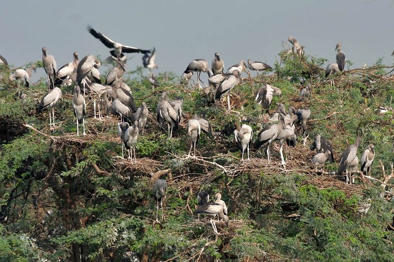 Asian Openbill Anastomus oscitans in Uppalapadu, Andhra Pradesh, India.